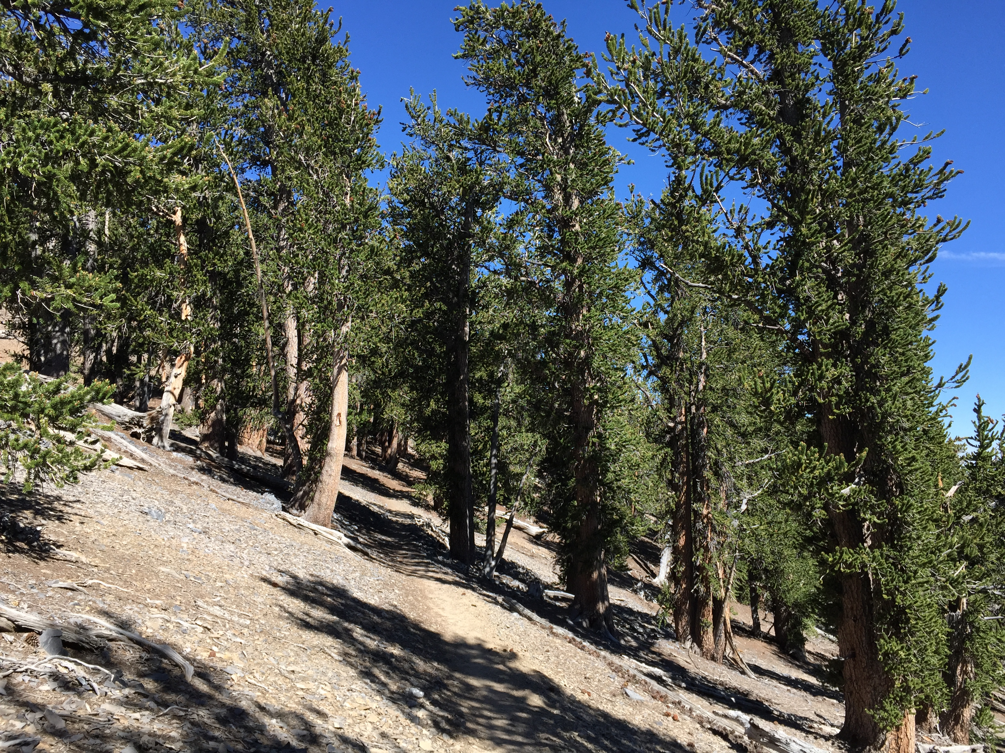 View east along the North Loop Trail through a grove of Great Basin Bristlecone Pines about 6.7 miles west of the trailhead in the Mount Charleston Wilderness, Nevada